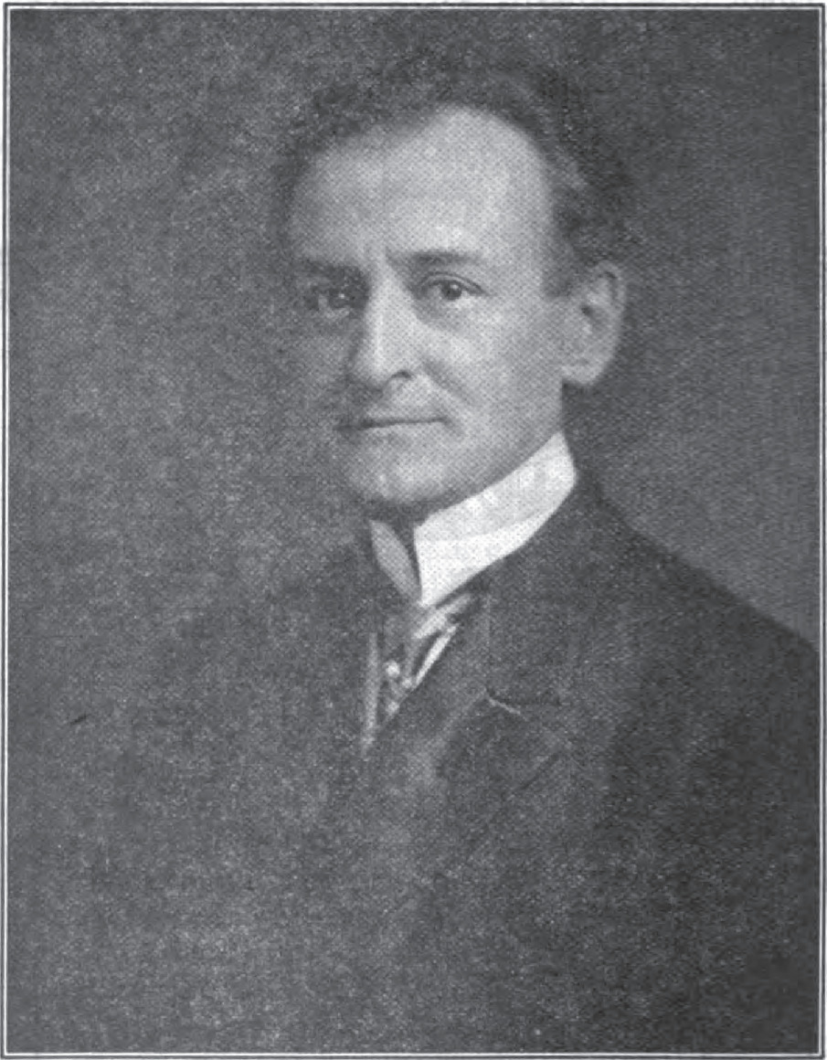 Karl Muck, Boston Symphony Orchestra ad. Text above: "BOSTON SYMPHONY ORCHESTRA". Note below: "Dr. KARL MUCK, Conductor [new line] SEASON OF 1914 AND 1915"